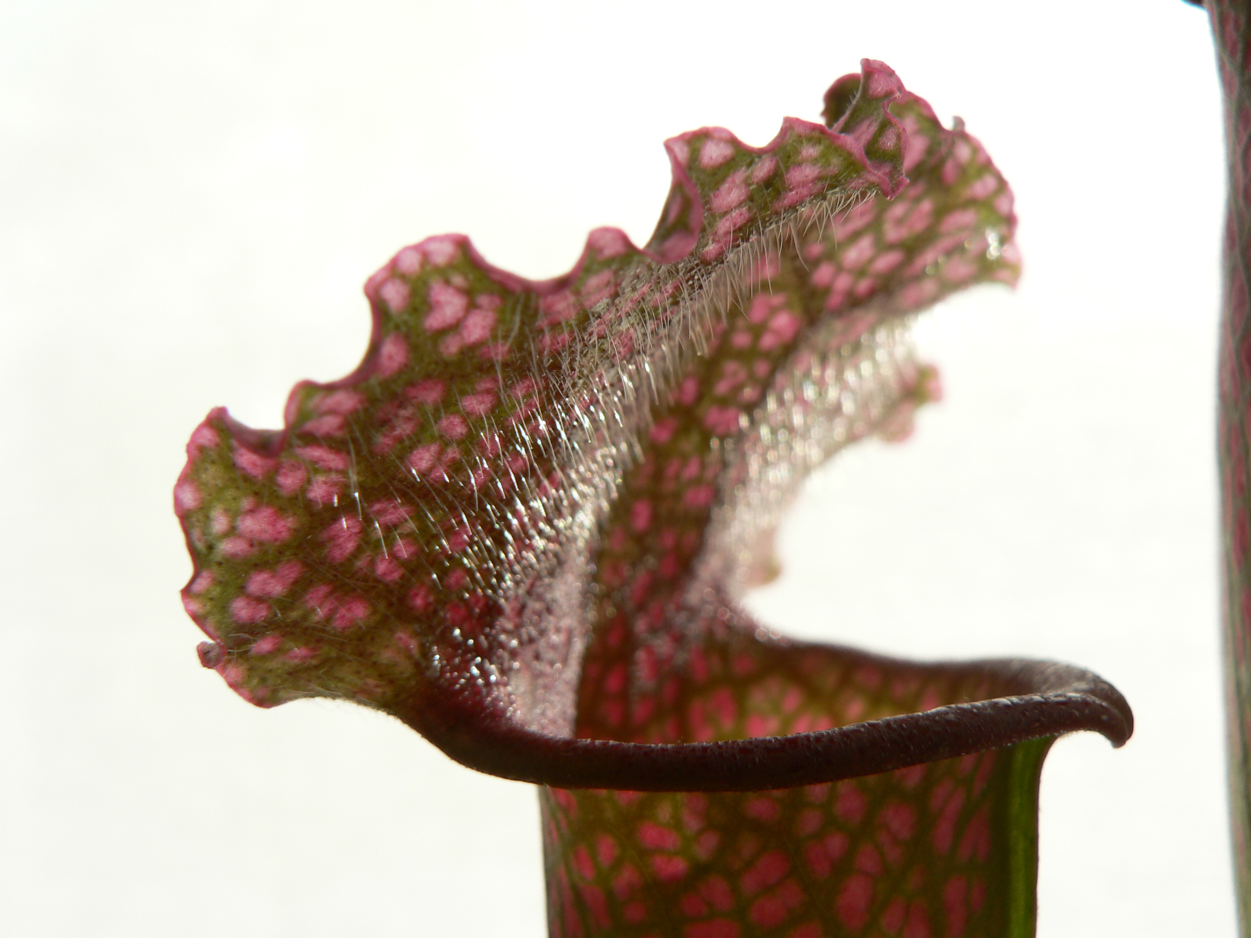 Sarracenia (?) - mark the hairs that direct the insects inside